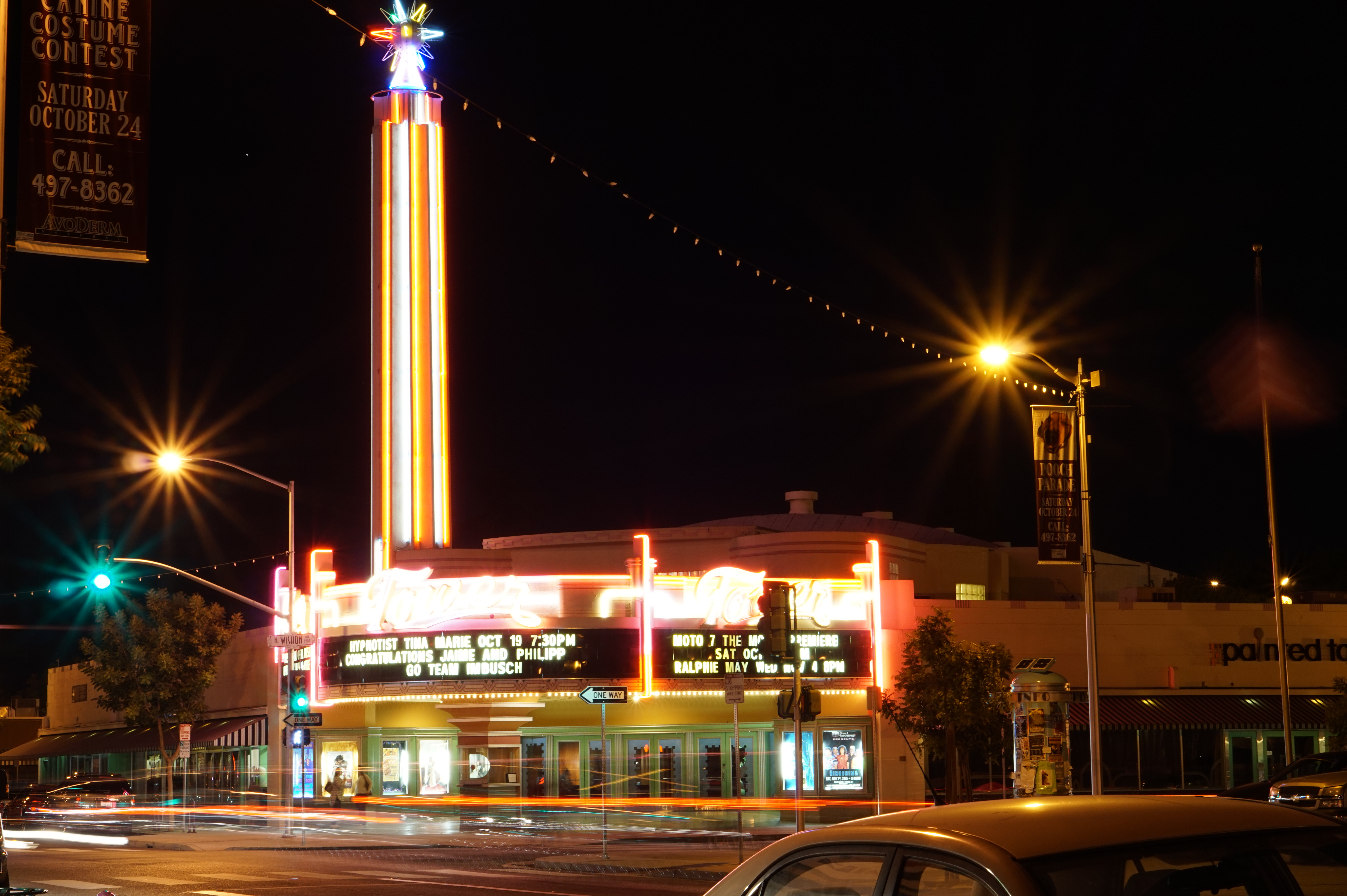 The Tower Theater